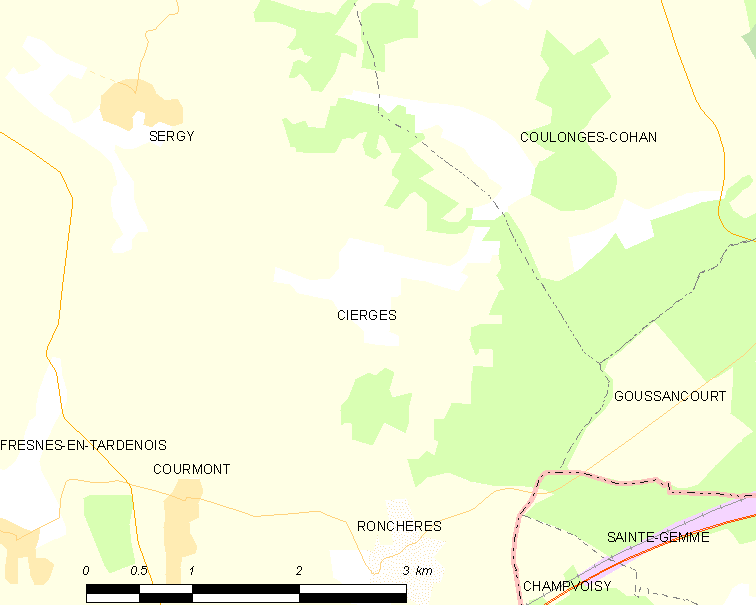 Map of French commune: Cierges Map commune FR insee code 02193.png